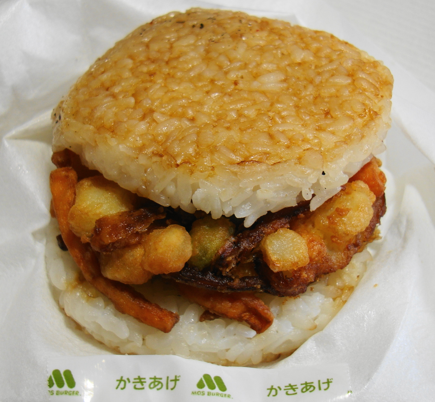 Close-up view of a MOS Burger rice burger "Kaisen-Kakiage Solt Tare sauce"